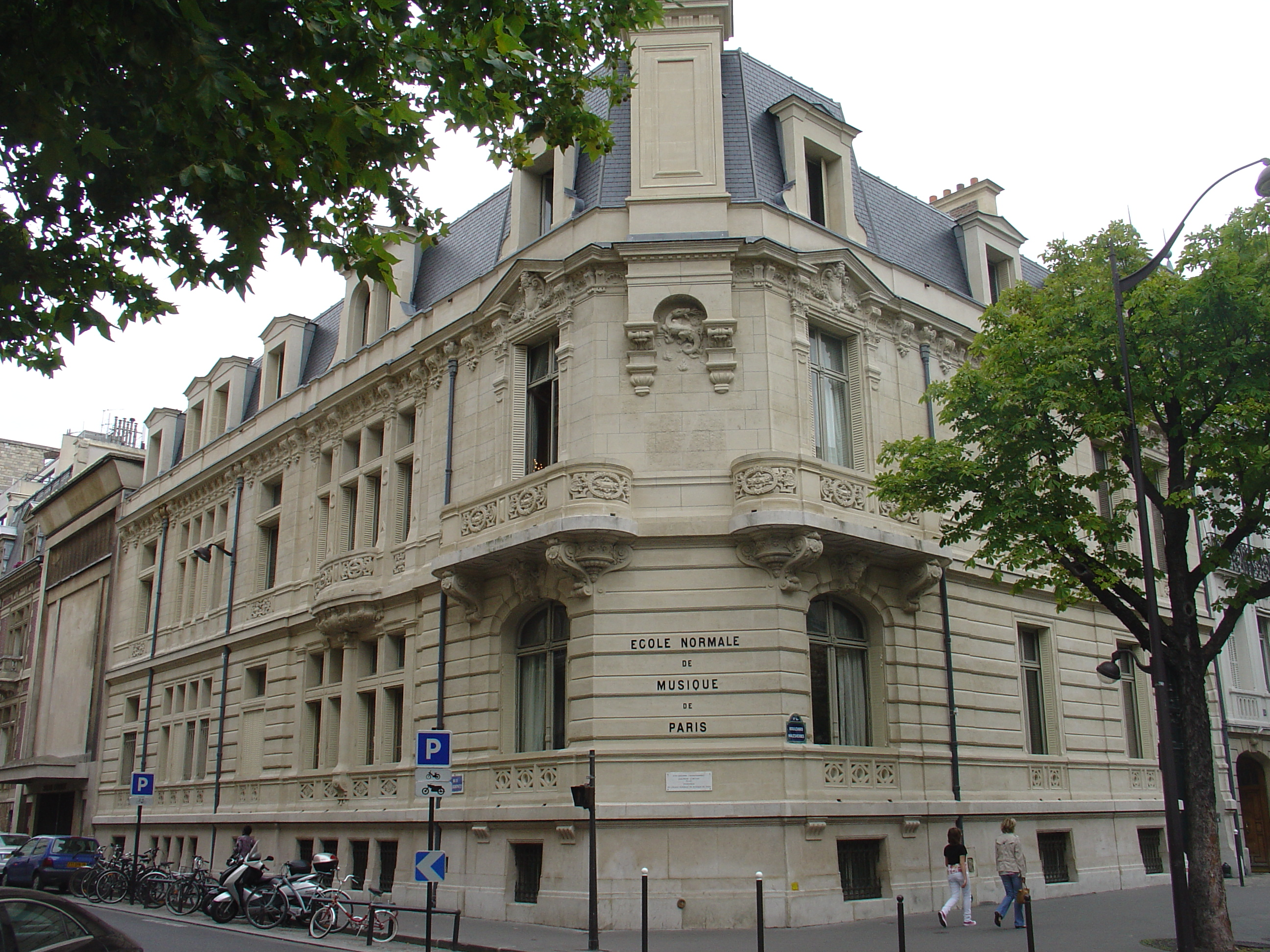 This is the building of L'Ecole Normale de Musique de Paris.